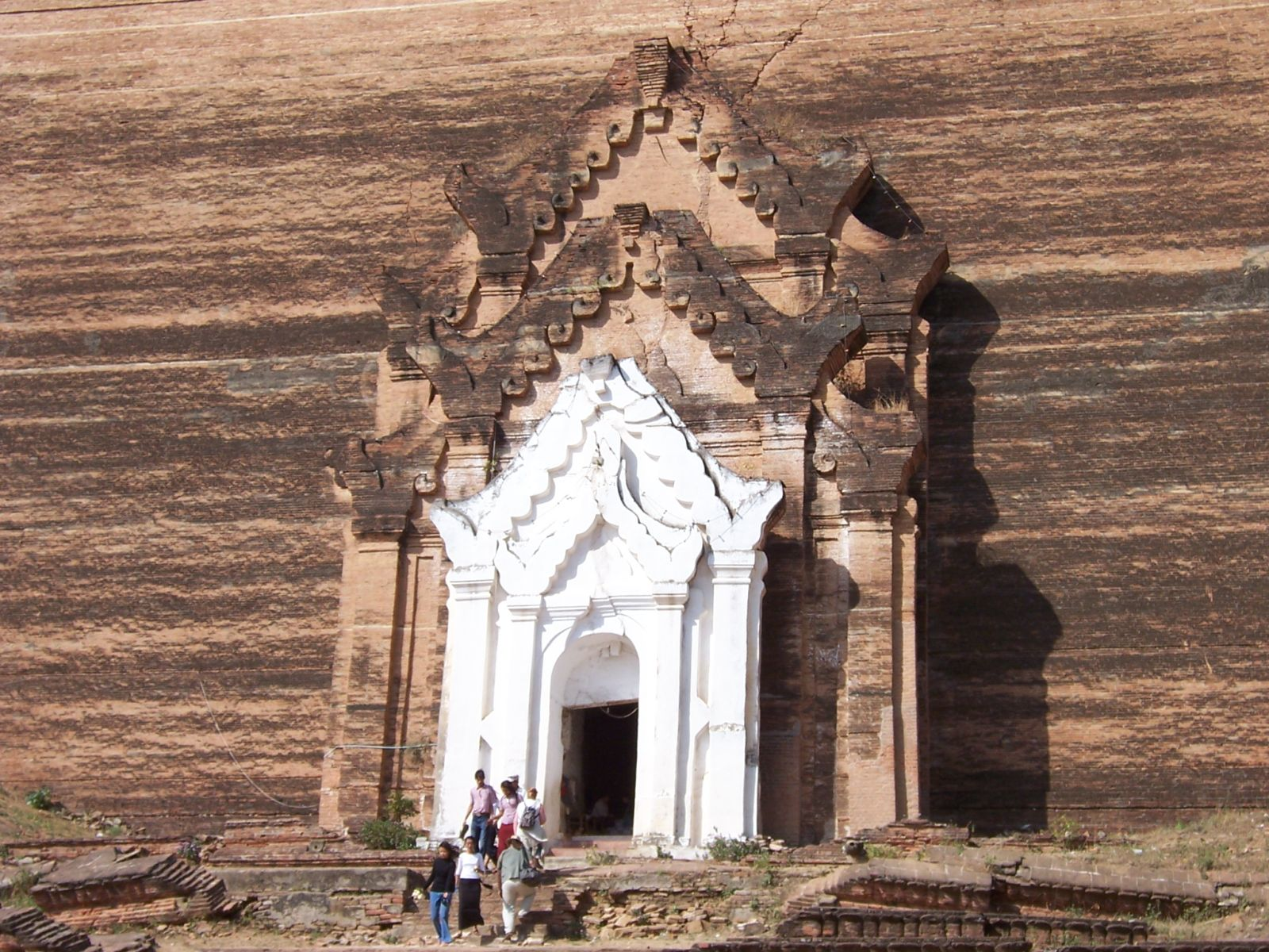 The entrance of the Unfinished Stupa at Mingun, Myanmar. It was supposed to be the biggest stupa in the world. King Bodawpaya started to build it at the end of the 18th century but it craced during constuction. This was taken as bad omen so it was left unfinished. Picture taken in February, 2005.